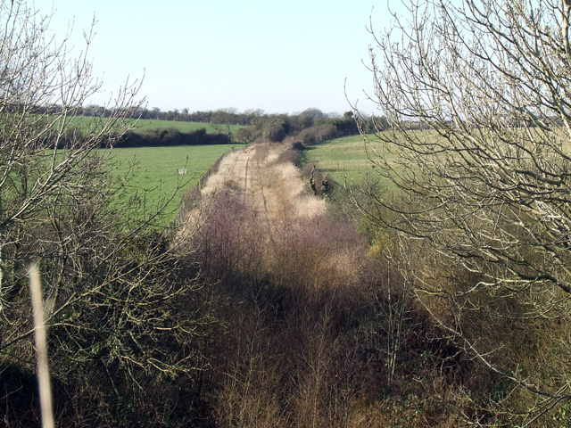 Disused Amlwch branch line near Pentre Berw View of the disused Amlwch branch line near to Pentre Berw, seen from a bridge crossing the line.